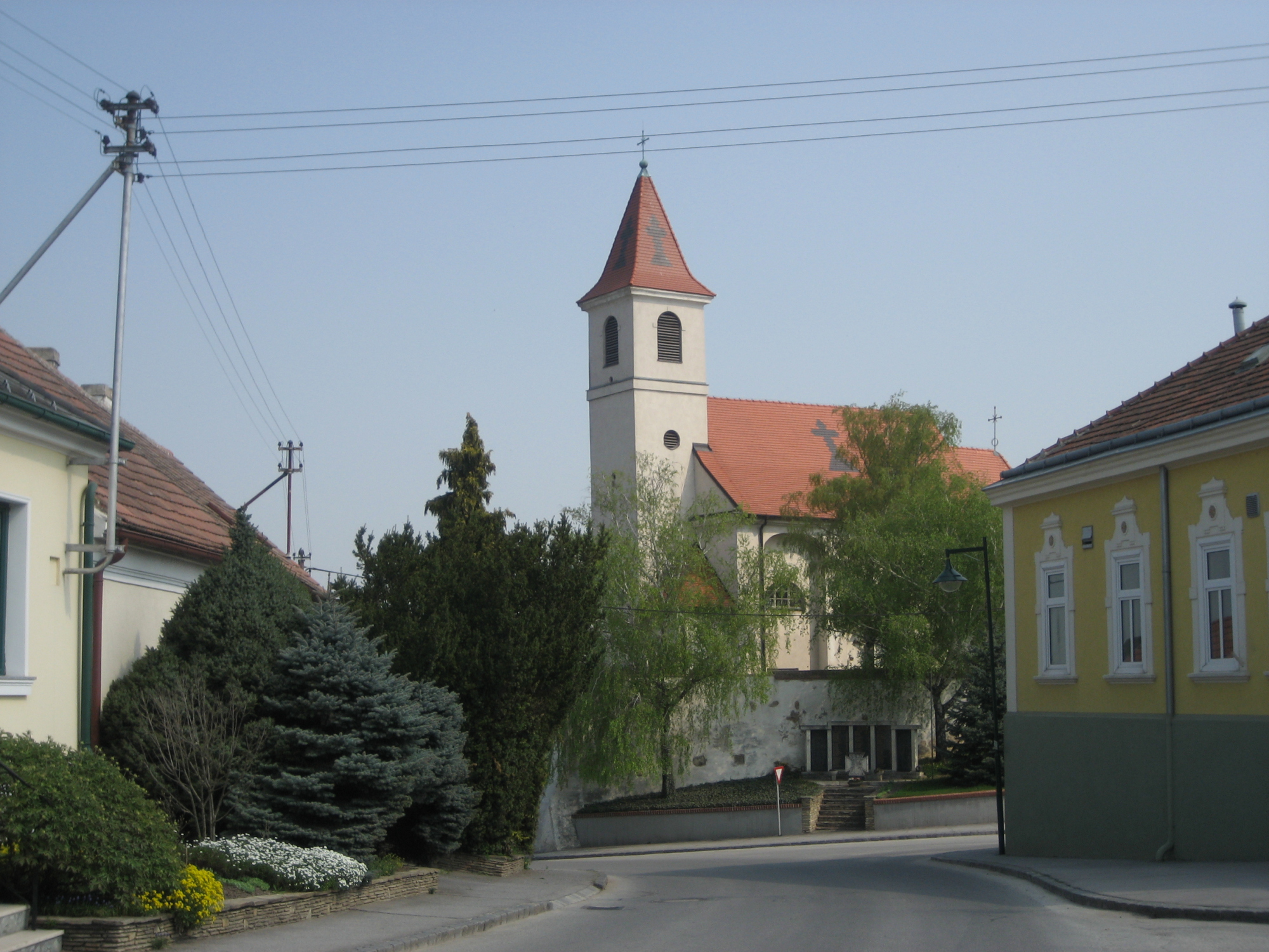 Church in Niederabsdorf, Lower Austria